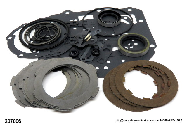 The master kit for Toyota A10 transmissions